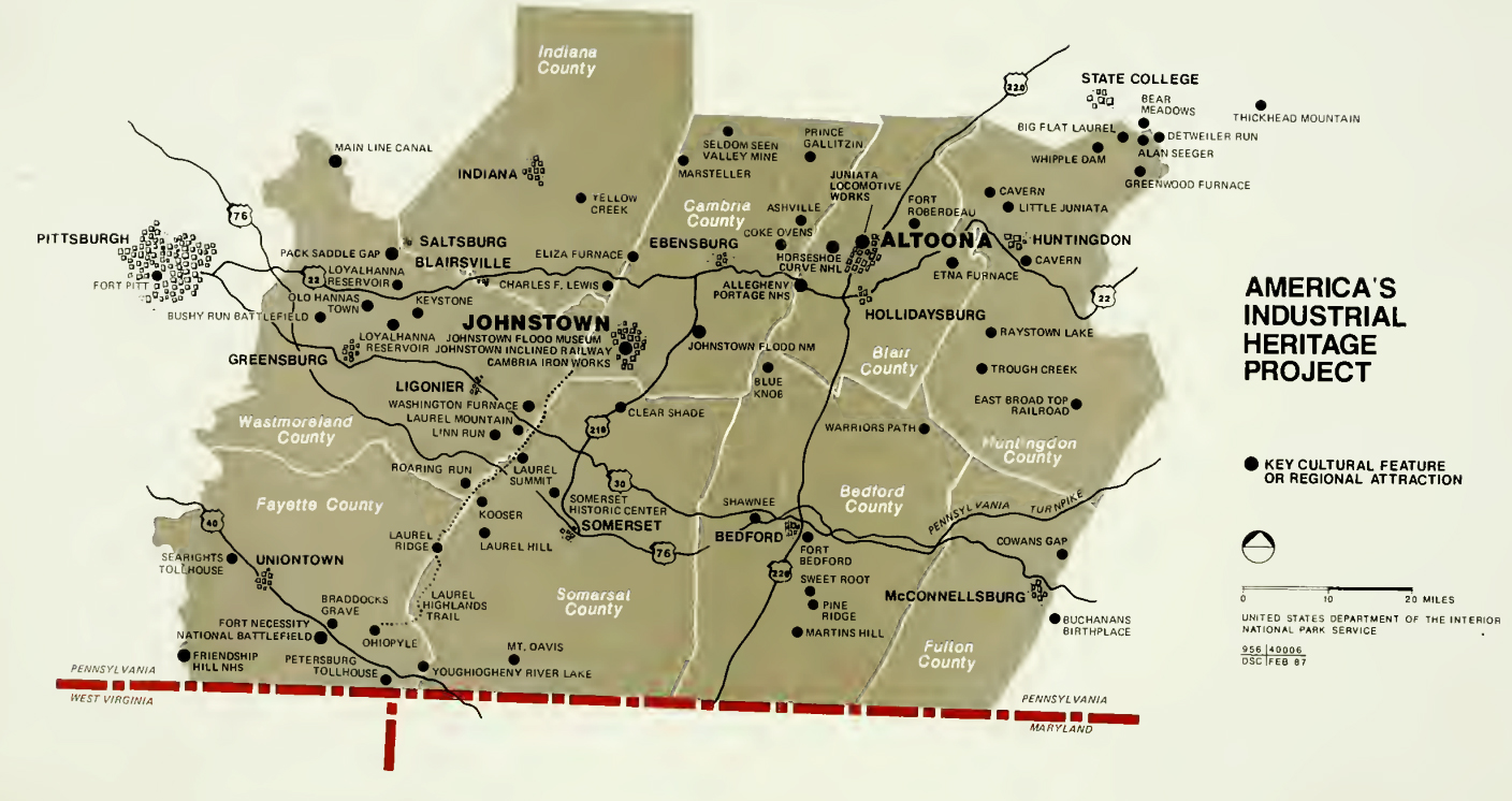 America's Industrial Heritage Project is underway! This innovative and challenging project involves a nine-county region in southwestern Pennsylvania, which has an exciting and significant history. With its steep-sloped, heavily forested hillsides, its rural farmsteads and small communities nestled in scenic valleys, and its urban industrial centers, the Allegheny highlands is a diverse and fascinating region awaiting discovery.